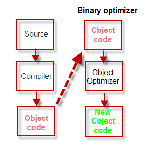 Binary optimizer schematic, illustrating how existing object code (or binary output) from a previous compile step is optimized to produce a more optimal object code or binary file for execution